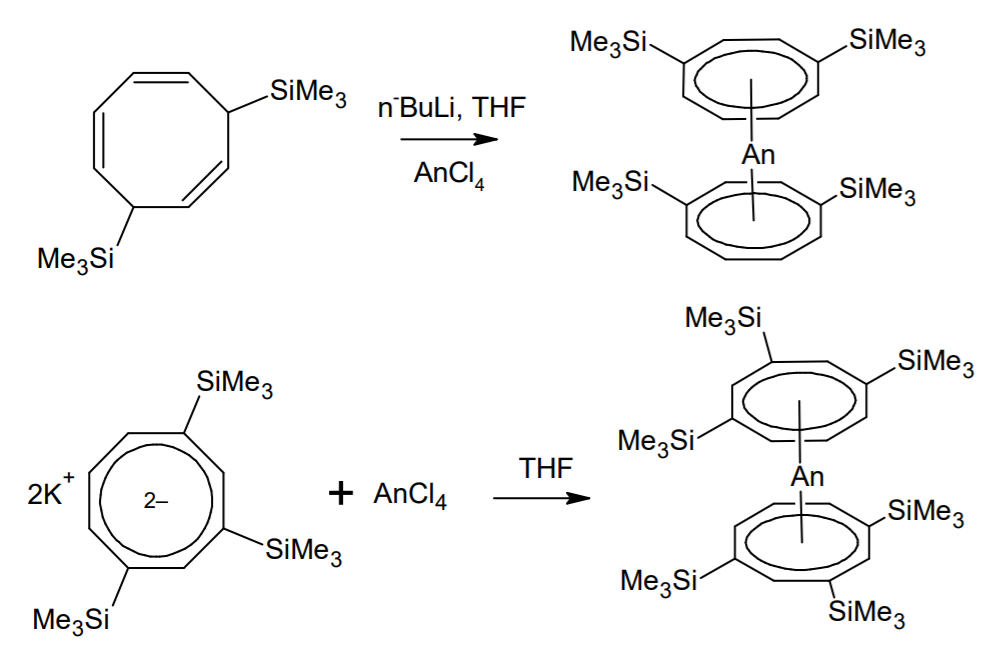 synthesis of uranium and thorium sandwich complexes with silyl substituted COT (cyclooctatetraene)